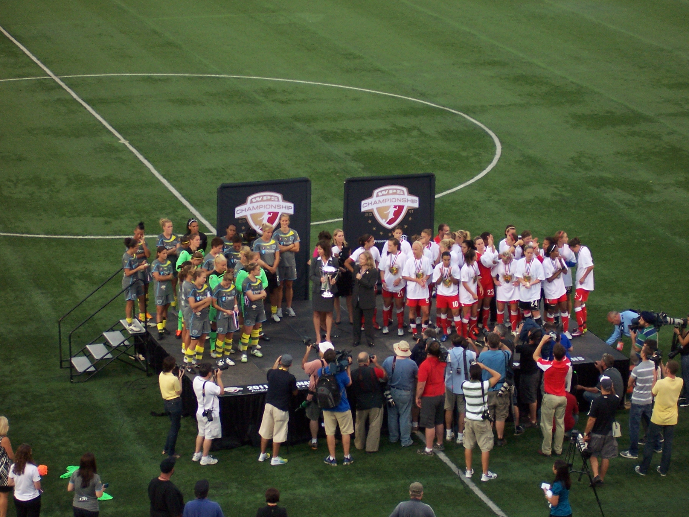 The trophy presentation after the 2011 Women's Professional Soccer Championship Game. The game was played at Sahlen's Stadium in Rochester, New York, the home stadium of the Western New York Flash. The Flash defeated the Philadelphia Independence on penalty kicks after a 1–1 tie. The Independence are in gray (green for goalies) on the left; the Flash are in red (covered with white T-shirts) on the right. WPS CFO Kristina Hentschel is holding the trophy; WPS CEO Anne-Marie Eileraas is on her left.